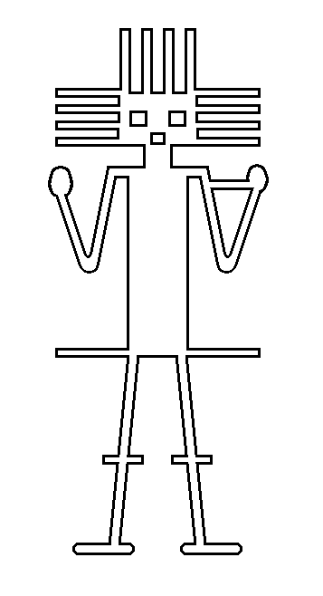 Picture of the Atacama Giant, Chile